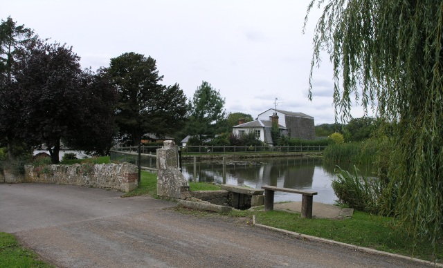 Coltsford Mill, near Hurst Green